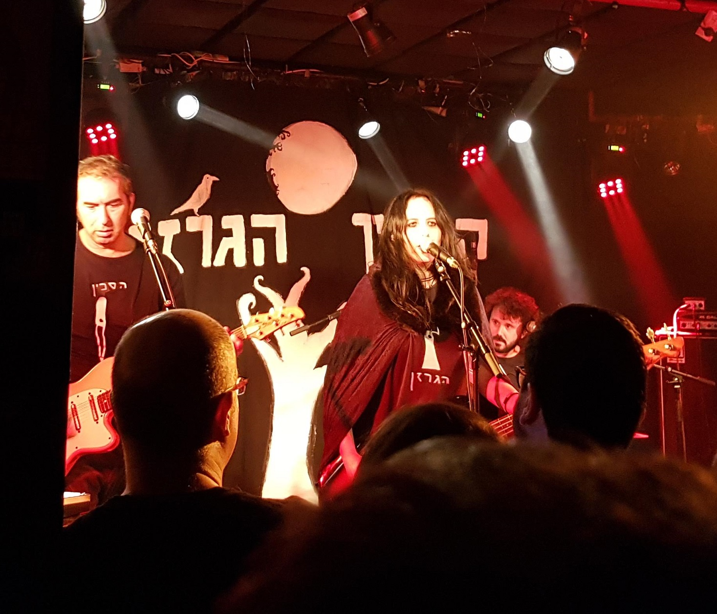 Israeli Rock musicians Sheila Ferber (center, bass, lead vocals), Ram Orion (left, guitar, vocals) and Stav Ben-Shachar (drums), during their show "The Knife, the Axe and the Blade" for Halloween 2019. Taken in Tel-Aviv-Jaffa, Israel